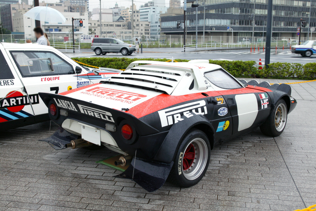 Lancia Storatos HF at The Spirit of Rally 2005